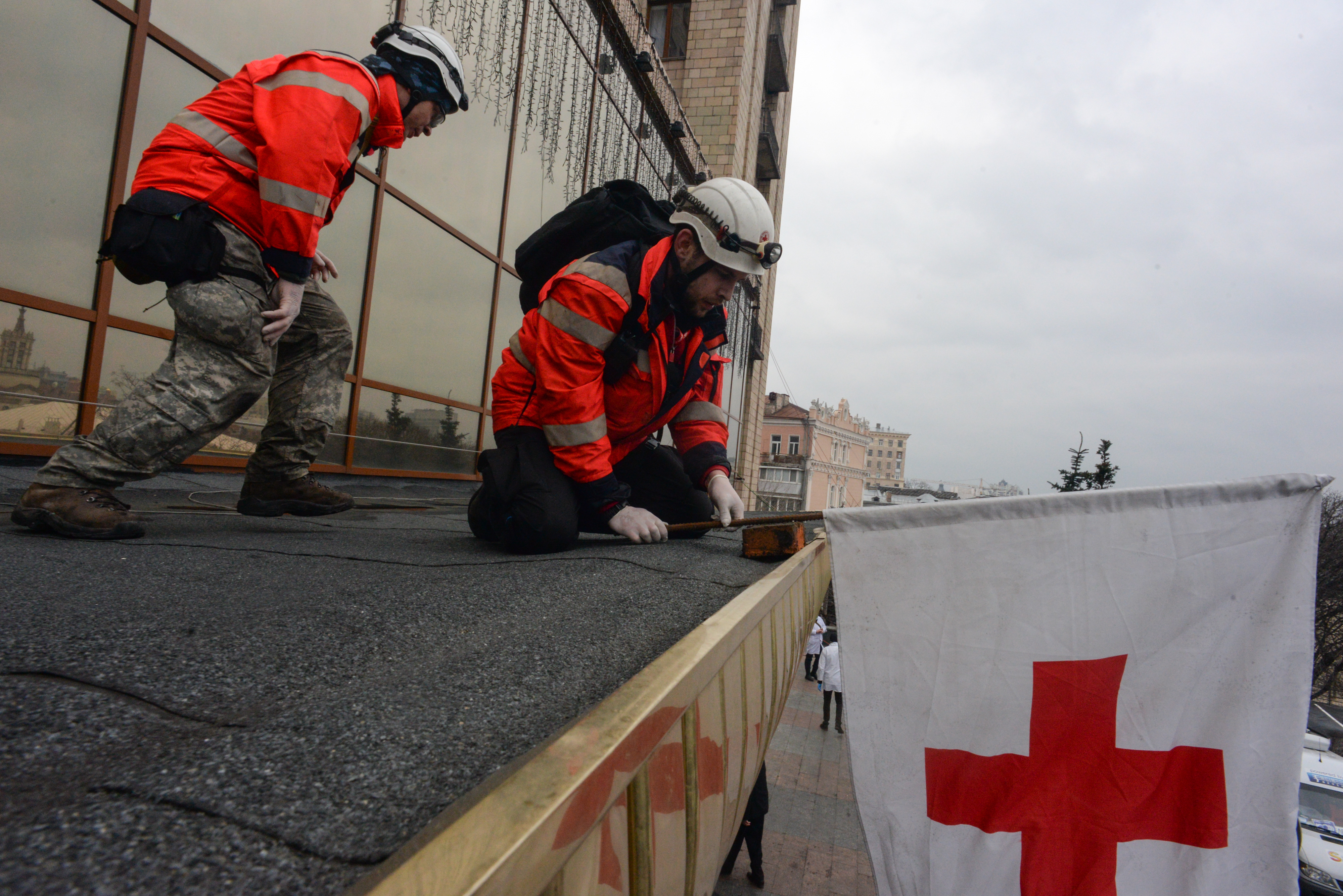 Ukrainian Red Cross society volunteers puting Red Cross flag above Ukraine hotel entrance to matrk it as a peaceful makeshift hospital. Clashes in Kyiv, Ukraine. February 20, 2014